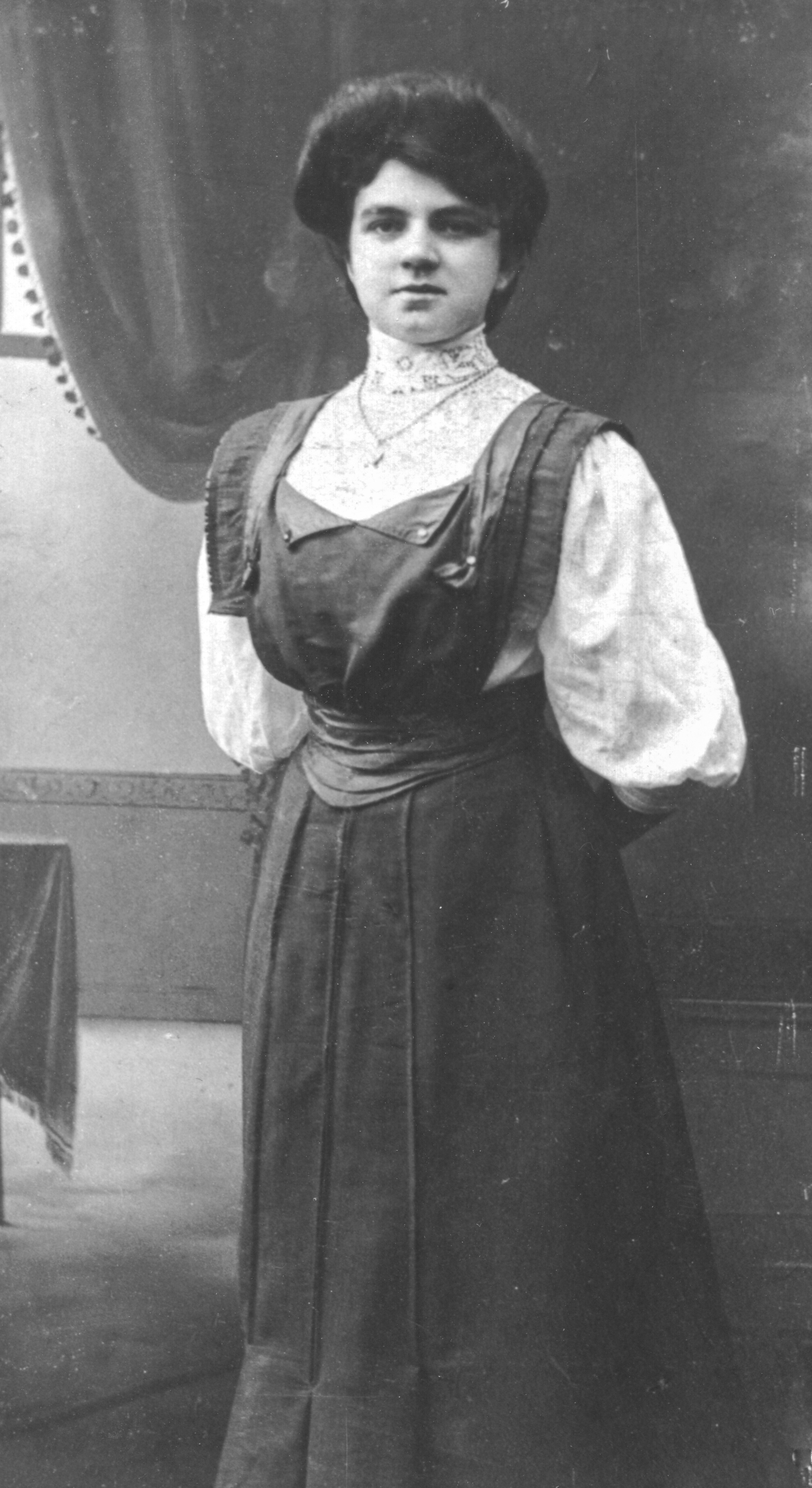 Anna Strohsahl, SPD politician in Cuxhaven (Germany) 1920-1933